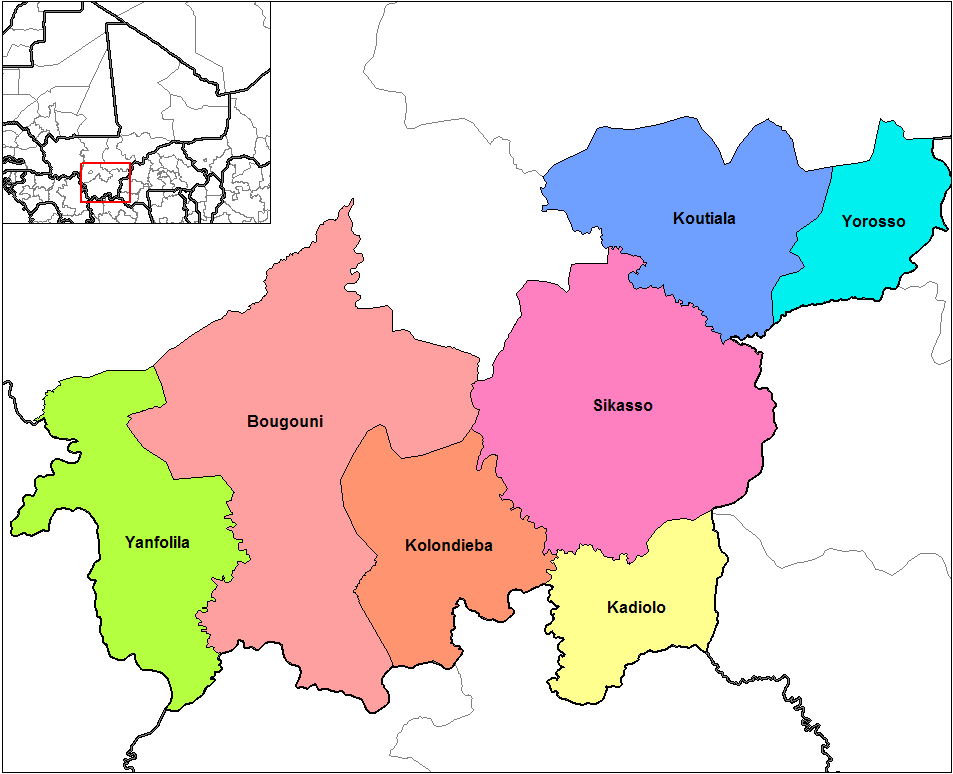 Map of the cercles of Sikasso region in Mali. Created using MapInfo Professional v8.5 and various mapping resources.